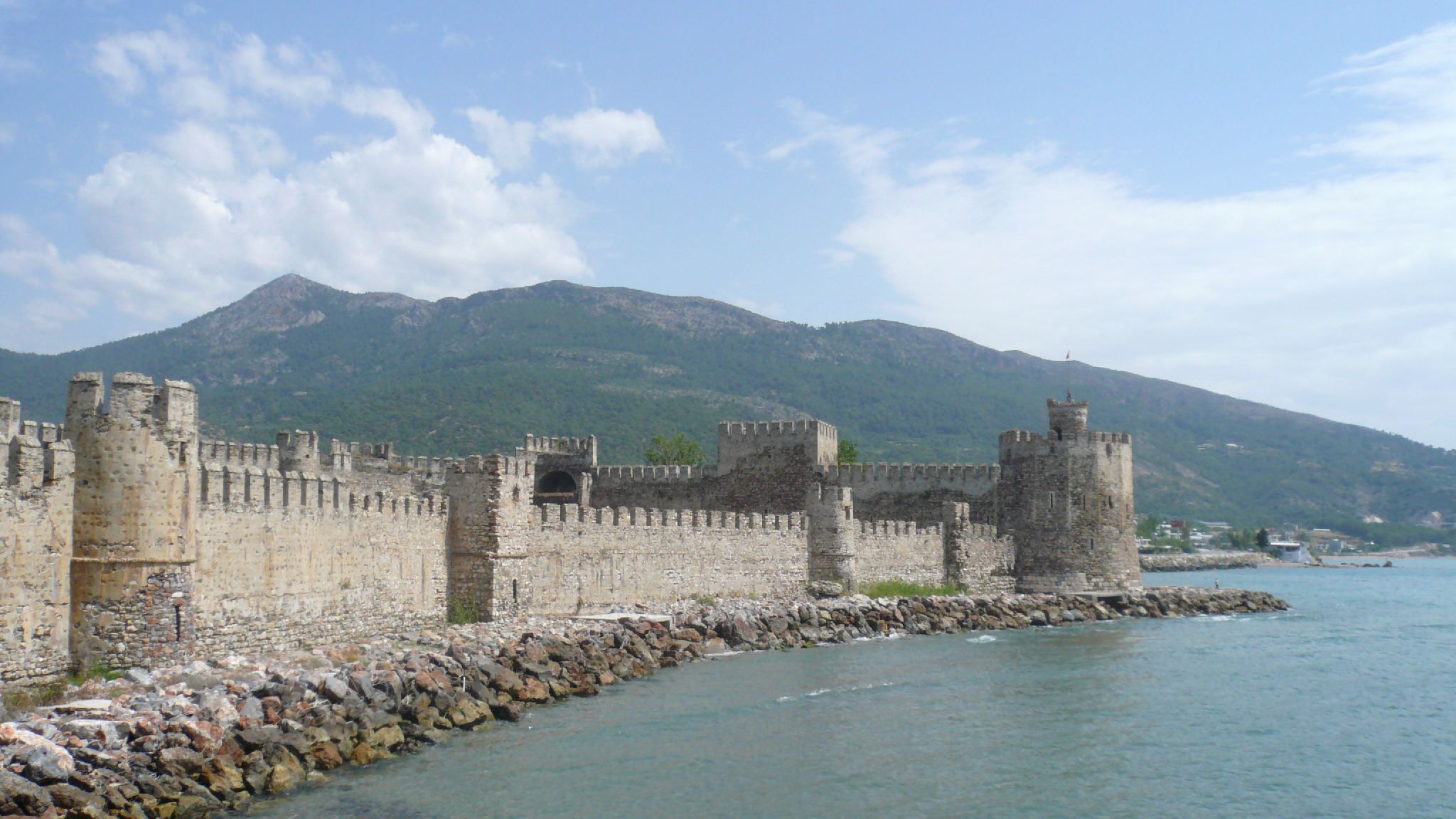 Mamure, the old Crusader castle in Anamur, Turkey.